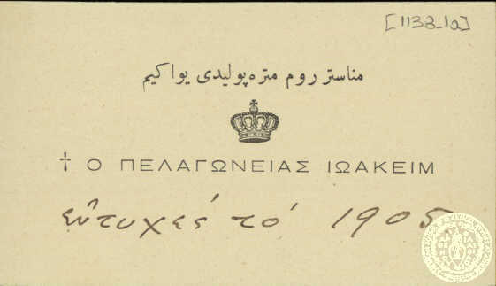 Ioakim_of_Pelagonia_Letter_to_Ion_Dragoumis